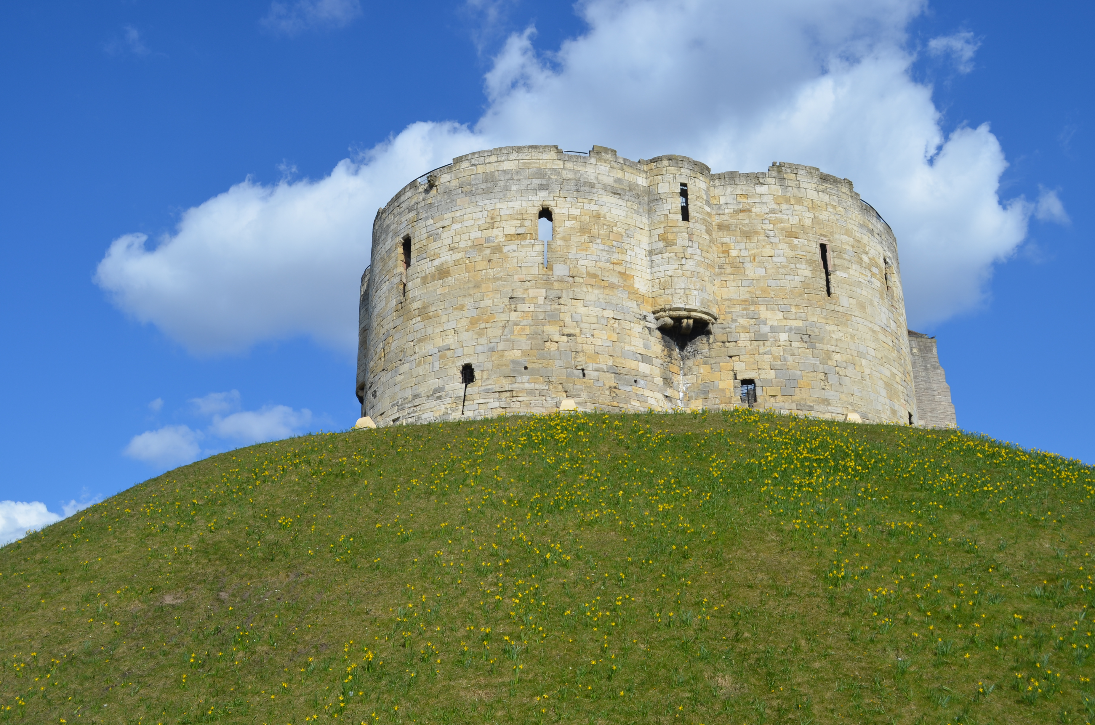 Cliffords Tower with daffodils on the slope of the motte